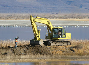 Waterfowl habitat enhancement project at Summer Lake Wildlife Area completed by the United States Army Corps of Engineers for the Oregon Department of Fish and Wildlife in 2009